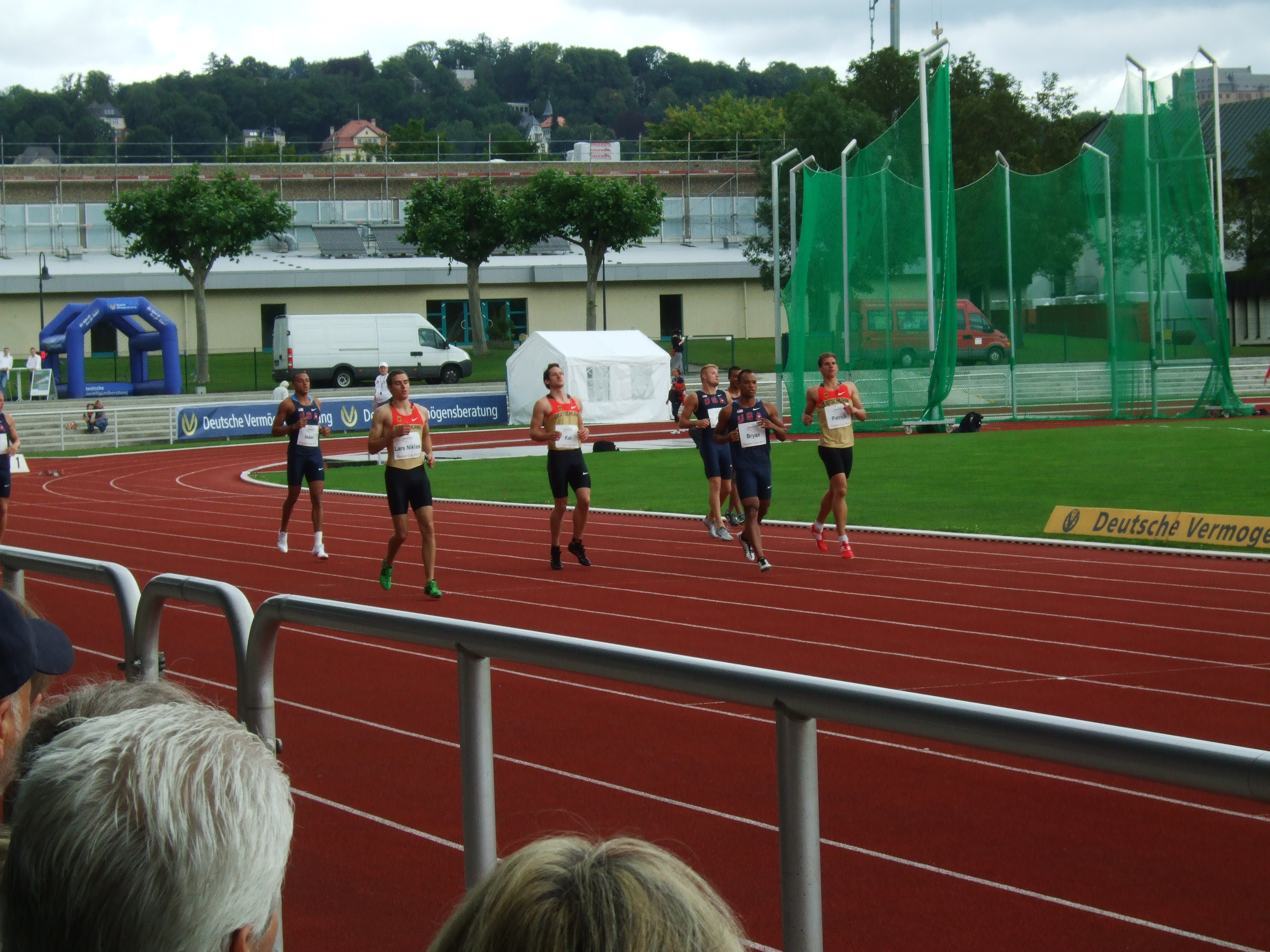 Decathletes just after a false start of the 100 metres at the 2012 Thorpe Cup